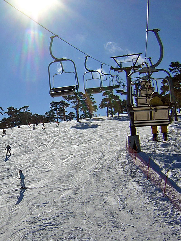 A view of "el Escaparate" ski track.